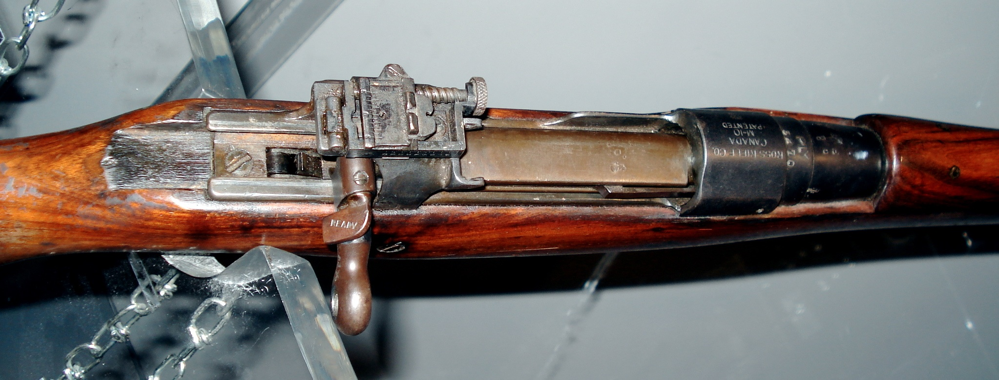 Canadian Ross Rifle, displayed at the Royal Canadian Regiment Military Museum in London, Ontario. The museum label states this is the Mk.1 version of the rifle, but the stamp on the rifle itself indicates that this is the M-10 version (i.e. Mk. 3). Photo taken on August 10, 2006. Source: Photo by me, User:Balcer.